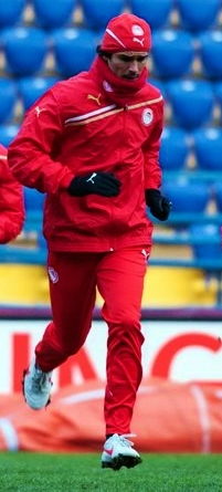 François Modesto